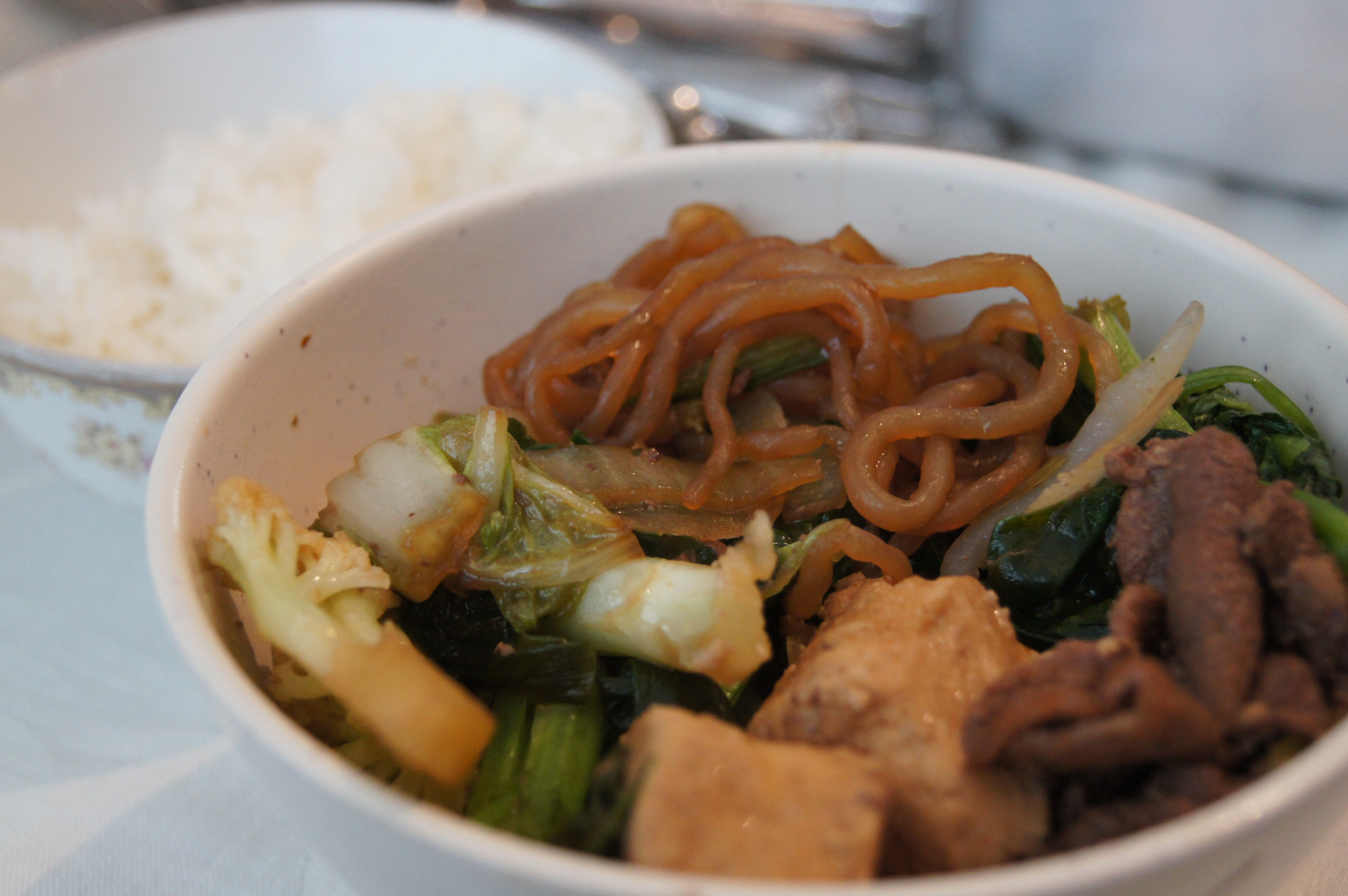 Sukiyaki